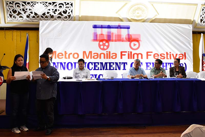 Announcement of the final eight entries which will feature in the 2018 Metro Manila Film Festival.